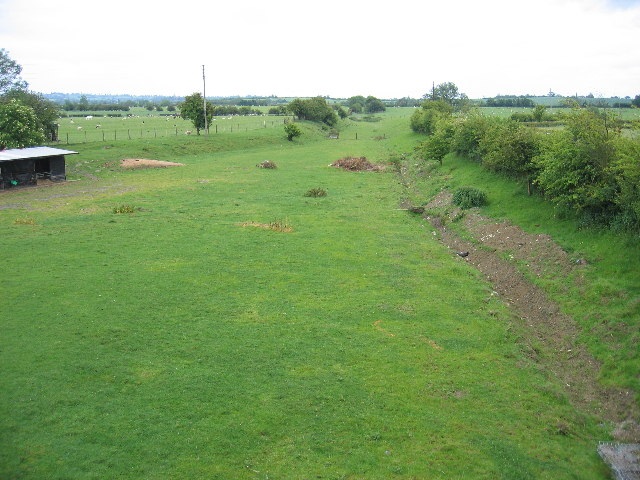 Flecknoe Station. The site of Flecknoe Station on the old LNWR line from Marton Junction to Weedon. Although bearing the name of Flecknoe, this station was a mile and half from the village it claimed to serve.